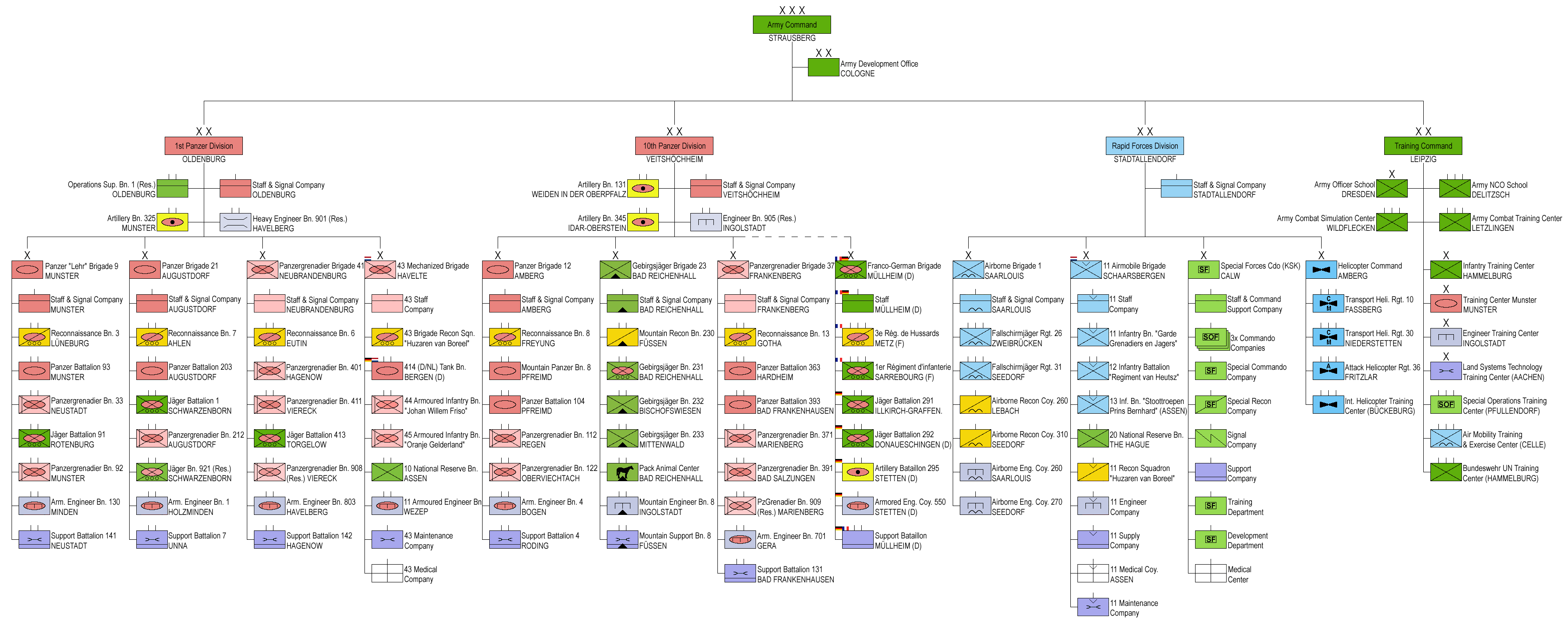 Structure of the German Army with integrated Royal Netherlands Army units in 2020 (for structure with only German units see: File:Germany Army Structure 2020.png